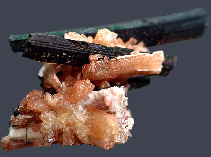 Nenadkevichite, Aegirine, Rhodochrosite Locality: Poudrette quarry (Demix quarry; Uni-Mix quarry; Desourdy quarry), Mont Saint-Hilaire, Rouville RCM, Montérégie, Québec, Canada (Locality at ) Sharp doubly-terminated 7mm crystal perched on aegerine! Smaller crystals as well, are present. 1.6 x 1.0 x 0.9 cm